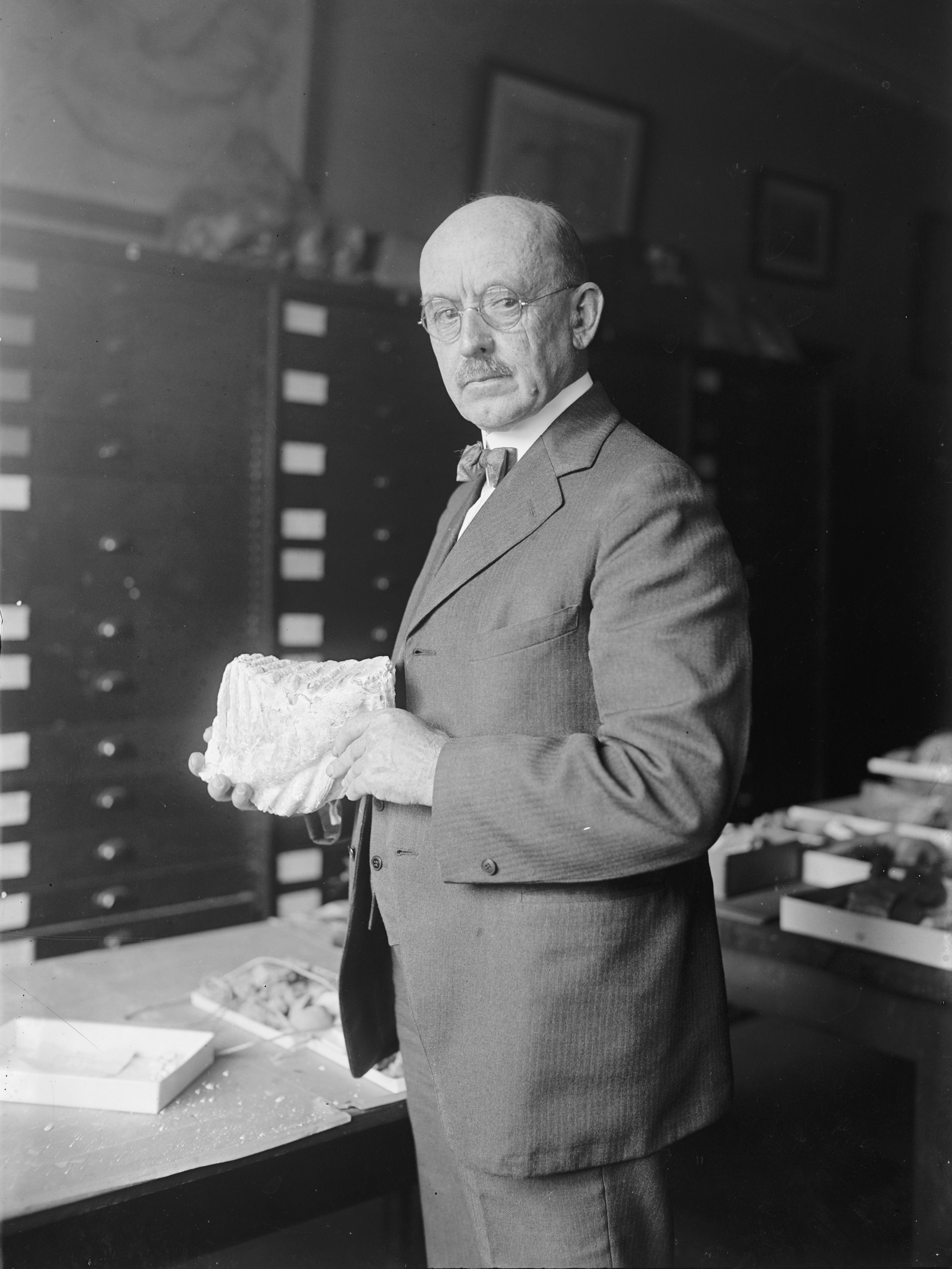 Title: Dr. J.W. Gidley of Smithsonian Institute with tooth of extinct elephant, 10/6/24 Abstract/medium: 1 negative : glass ; 5 x 7 in. or smaller